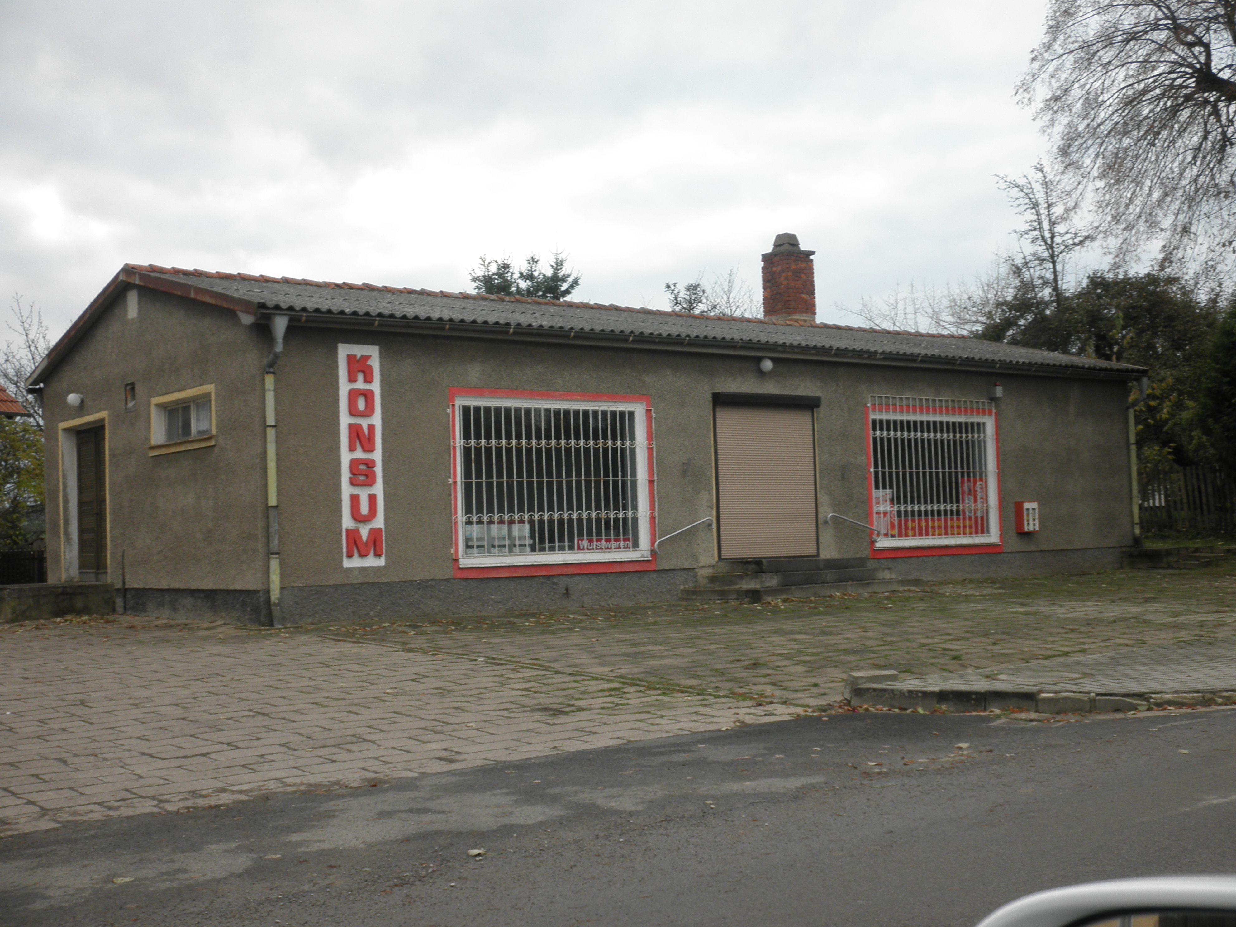 Shop in Kleinbrüchter (Helbedündorf) in Thuringia